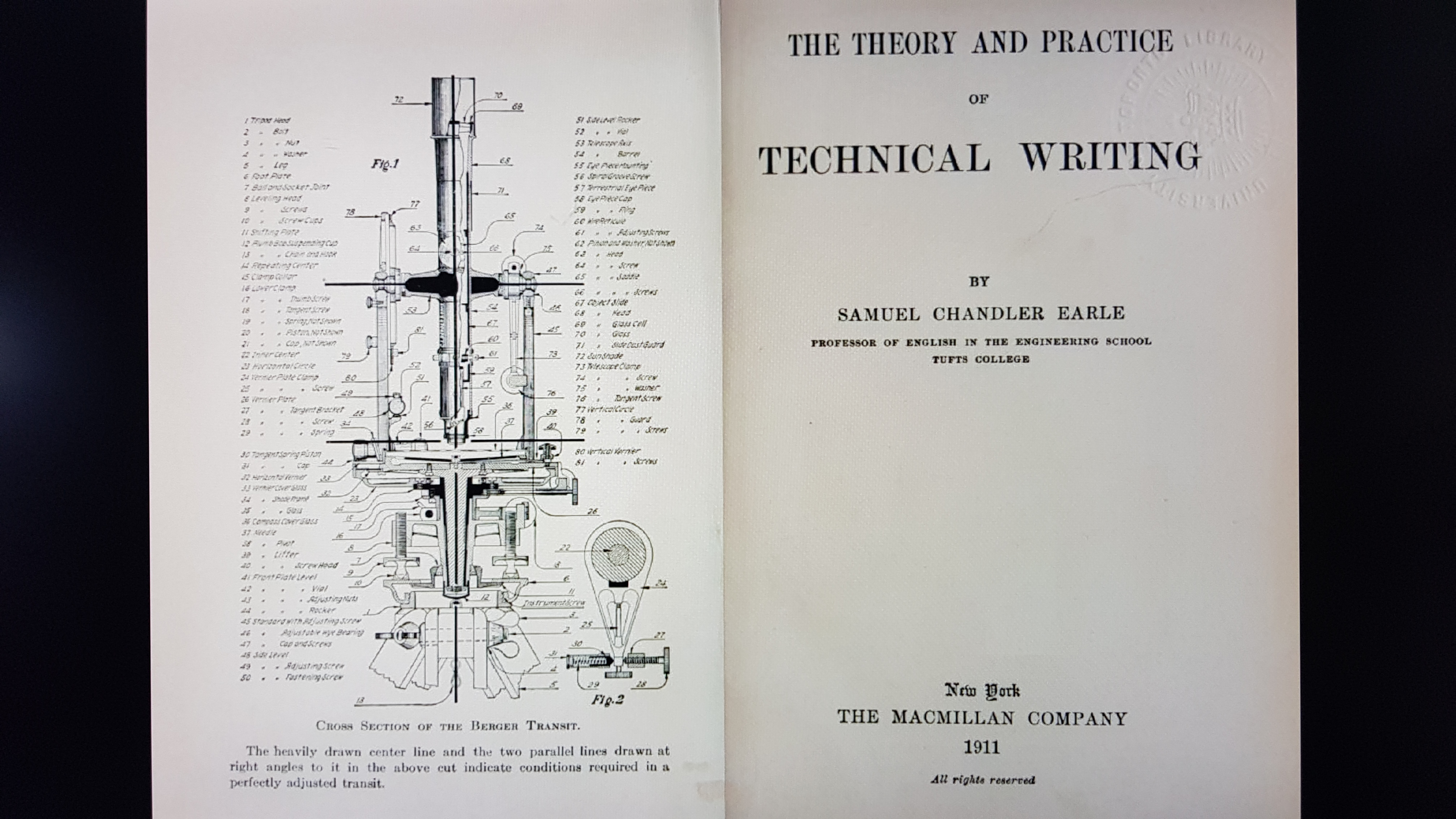 Samuel Chandler Earle, The Theory and Practice of Technical Writing (1911)